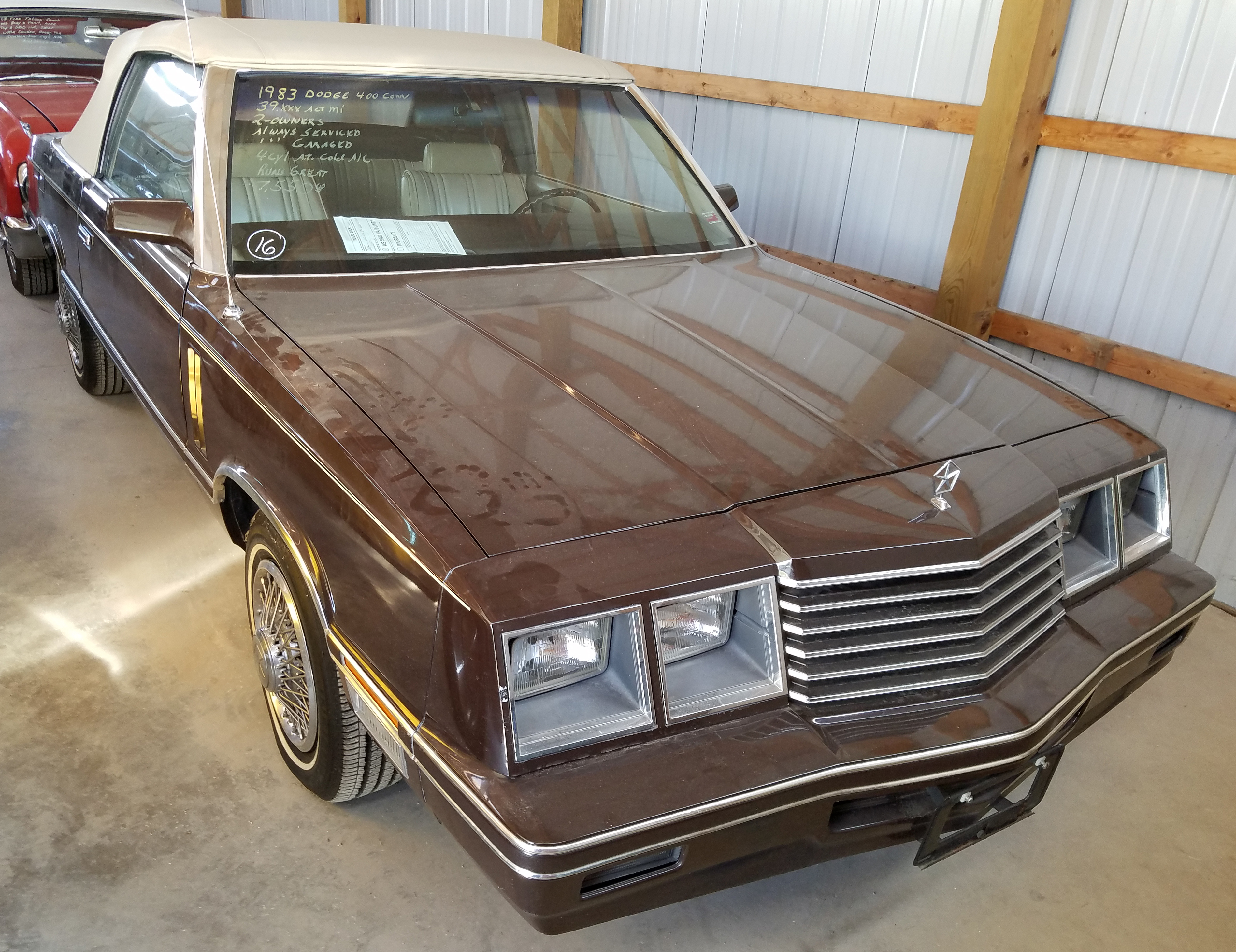 A 1983 Dodge 400 Convertible